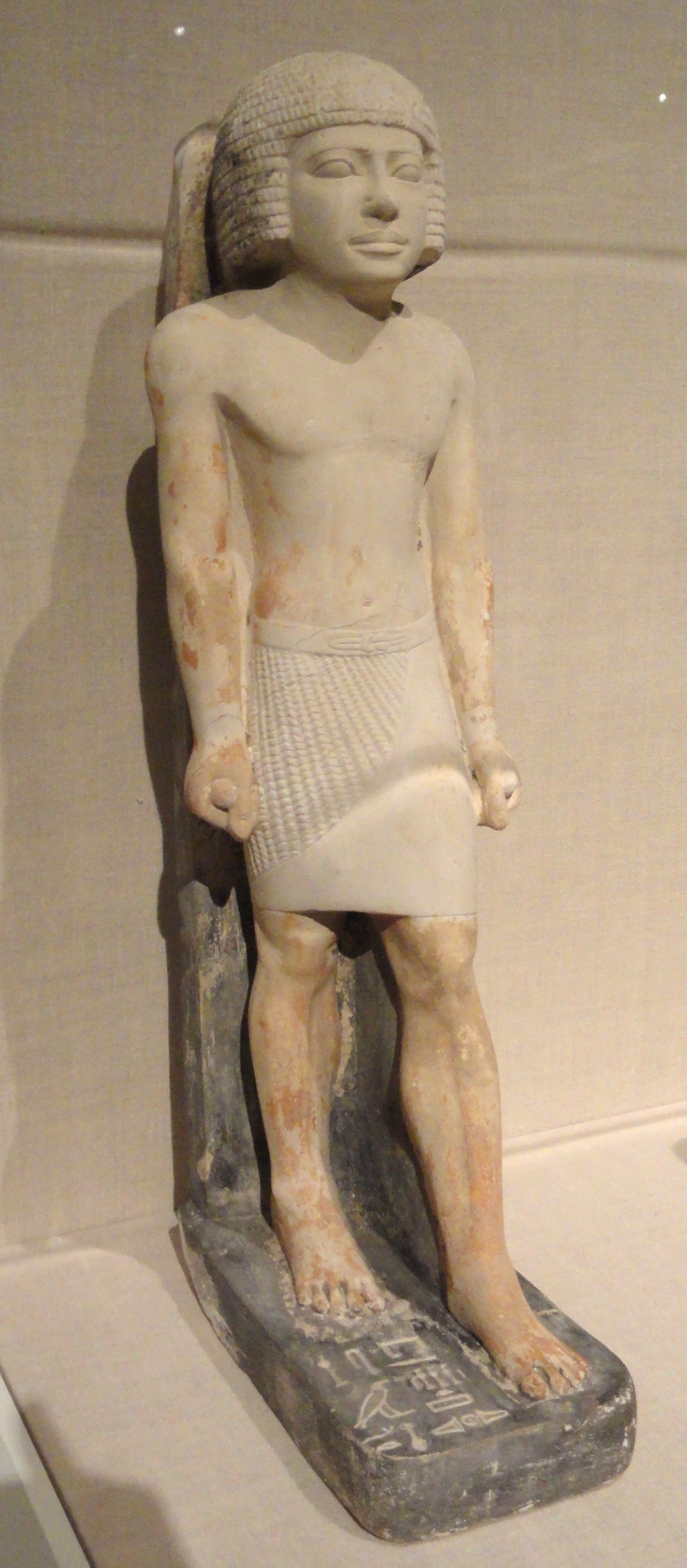 Exhibit in the Cleveland Museum of Art, Cleveland, Ohio, USA. This artwork is old enough so that it is in the public domain.